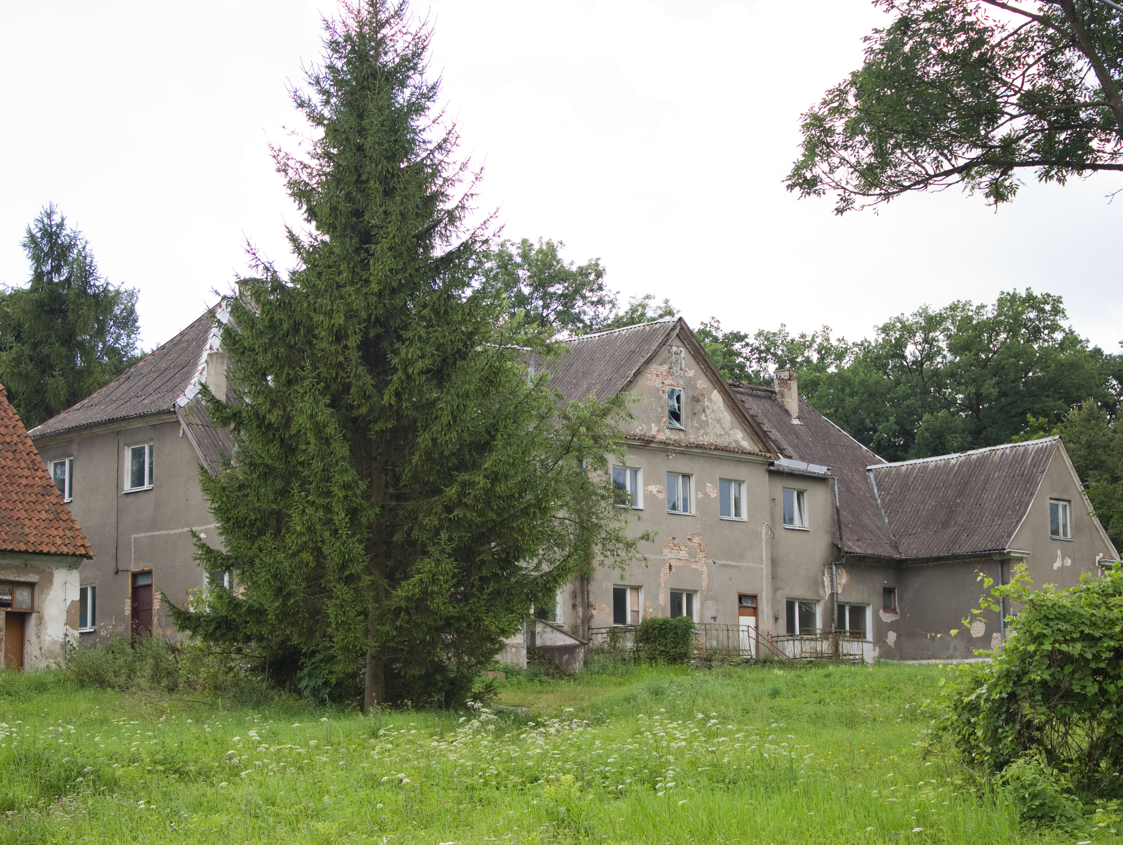 Manor house, Mołdyty, gmina Bisztynek, powiat bartoszycki, Warmian-Masurian Voivodeship